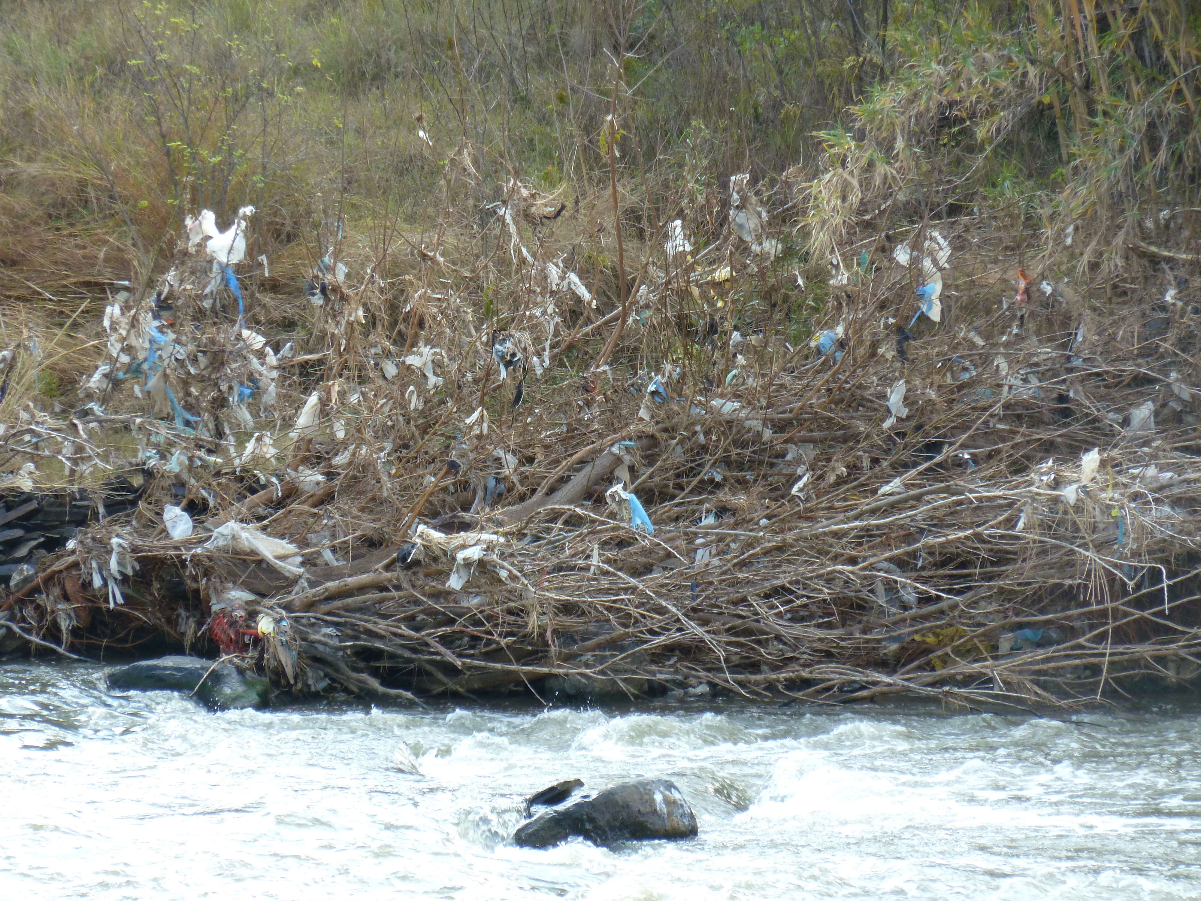 Plastic bag litter in the Crocodile river at Pelindaba, a few kms upstream of Hartbeespoort Dam, which is known for poor water quality. The catchment includes Bruma lake in the Jukskei River and Centurion lake in the Hennops River.